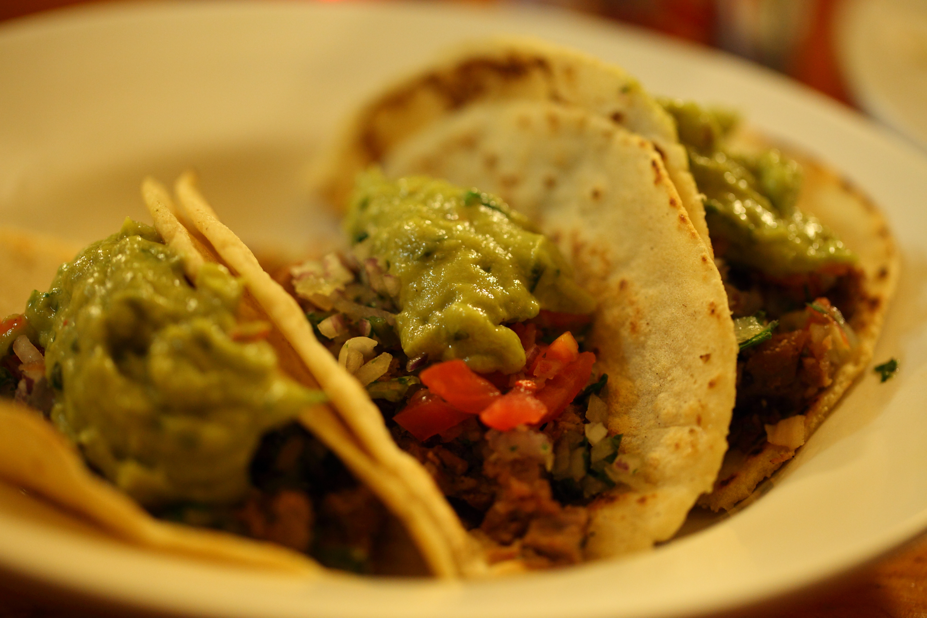 Tacos de carne (beef tacos) from Los Latinos Latin American restaurant (28 Mitchell Street) in Maidstone, a suburb in western Melbourne, Victoria, Australia.